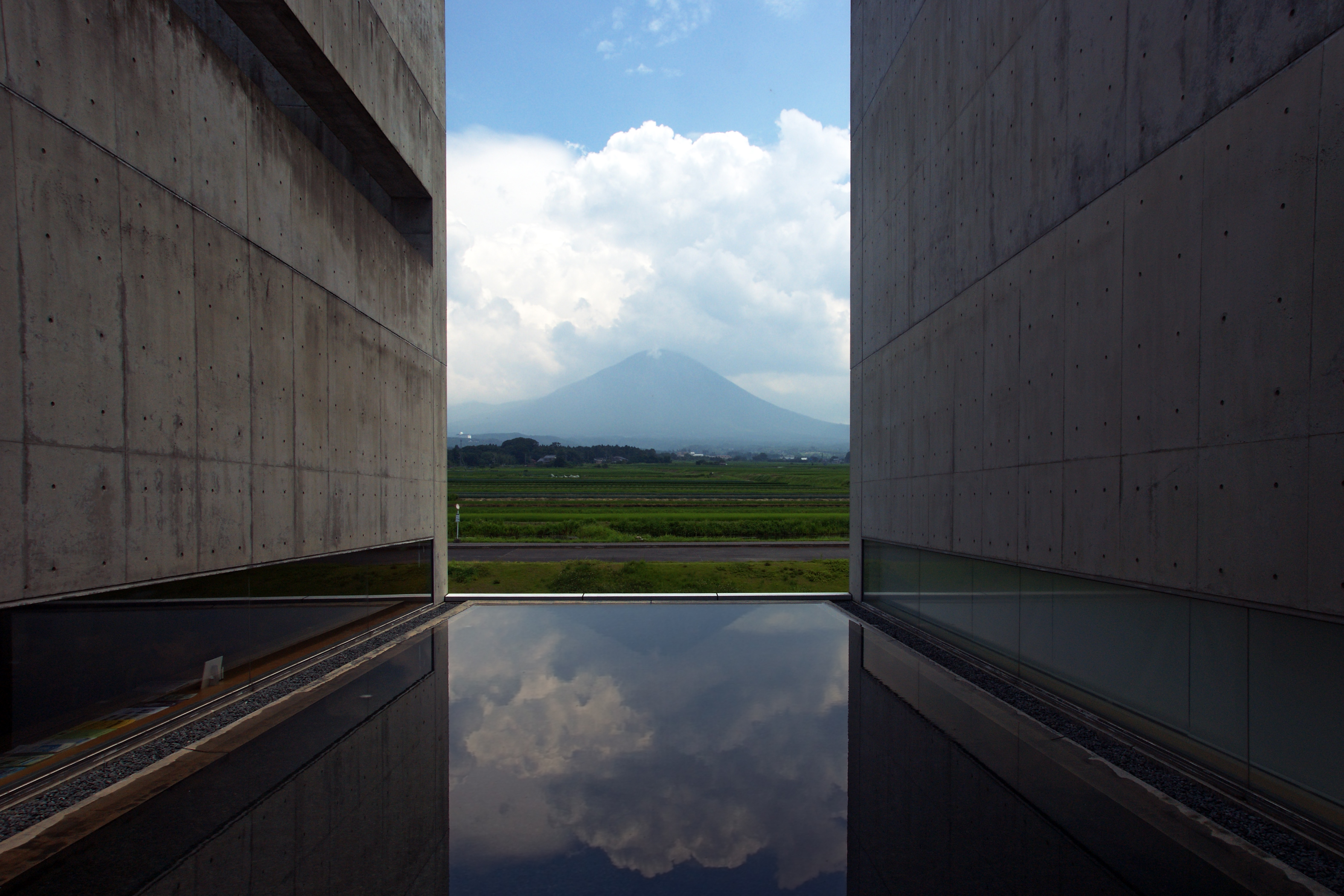 Mount Daisen view from Shoji Ueda Museum of Photography in Hōki, Tottori prefecture, Japan